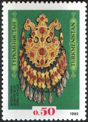 Stamp of Turkmenistan 1992. Author - Post of Turkmenistan.